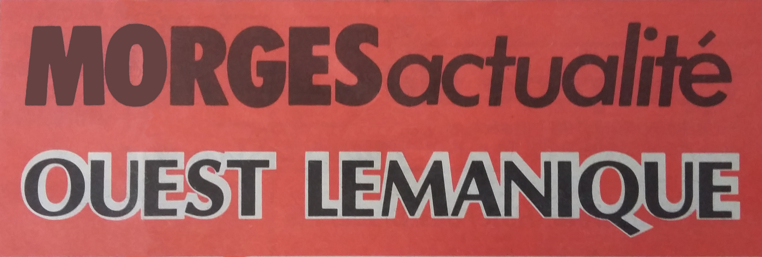 Logo of the former Swiss newspaper Morges actualité